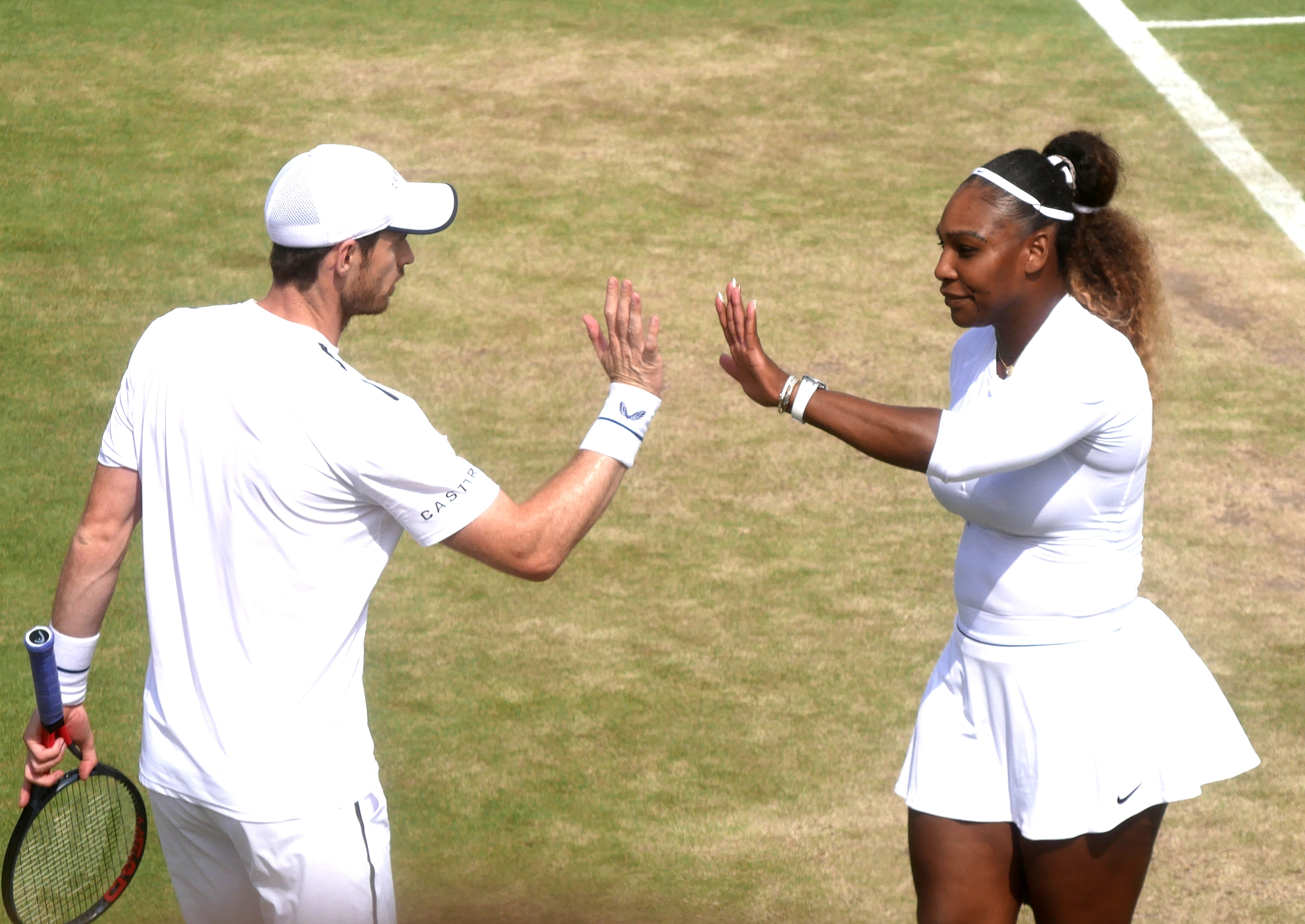 Andy Murray and Serena Williams play mixed doubles at Wimbledon 2019